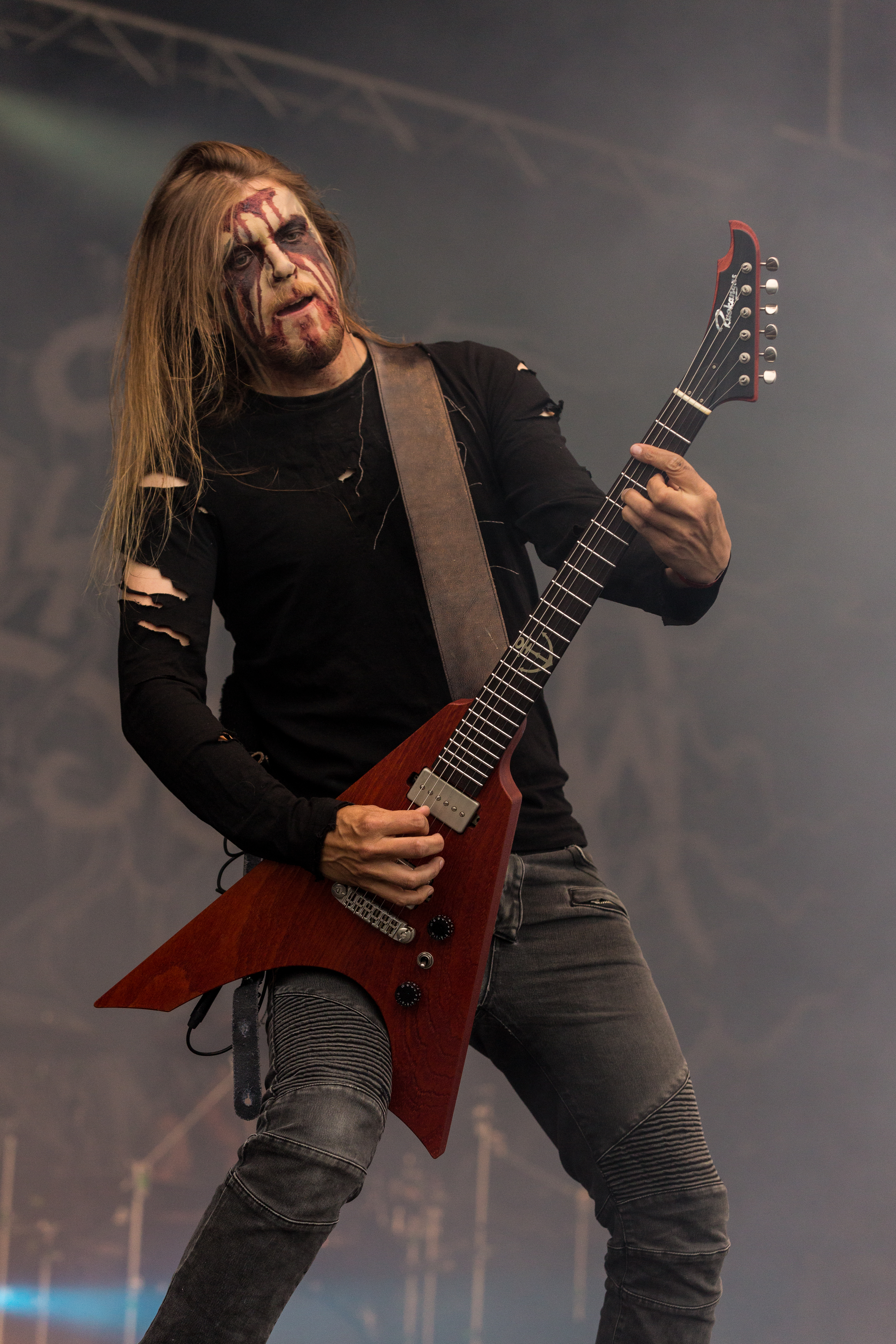 The Finnish pagan black metal band Moonsorrow at the Party.San Metal Open Air 2017 in Obermehler-Schlotheim/Germany.